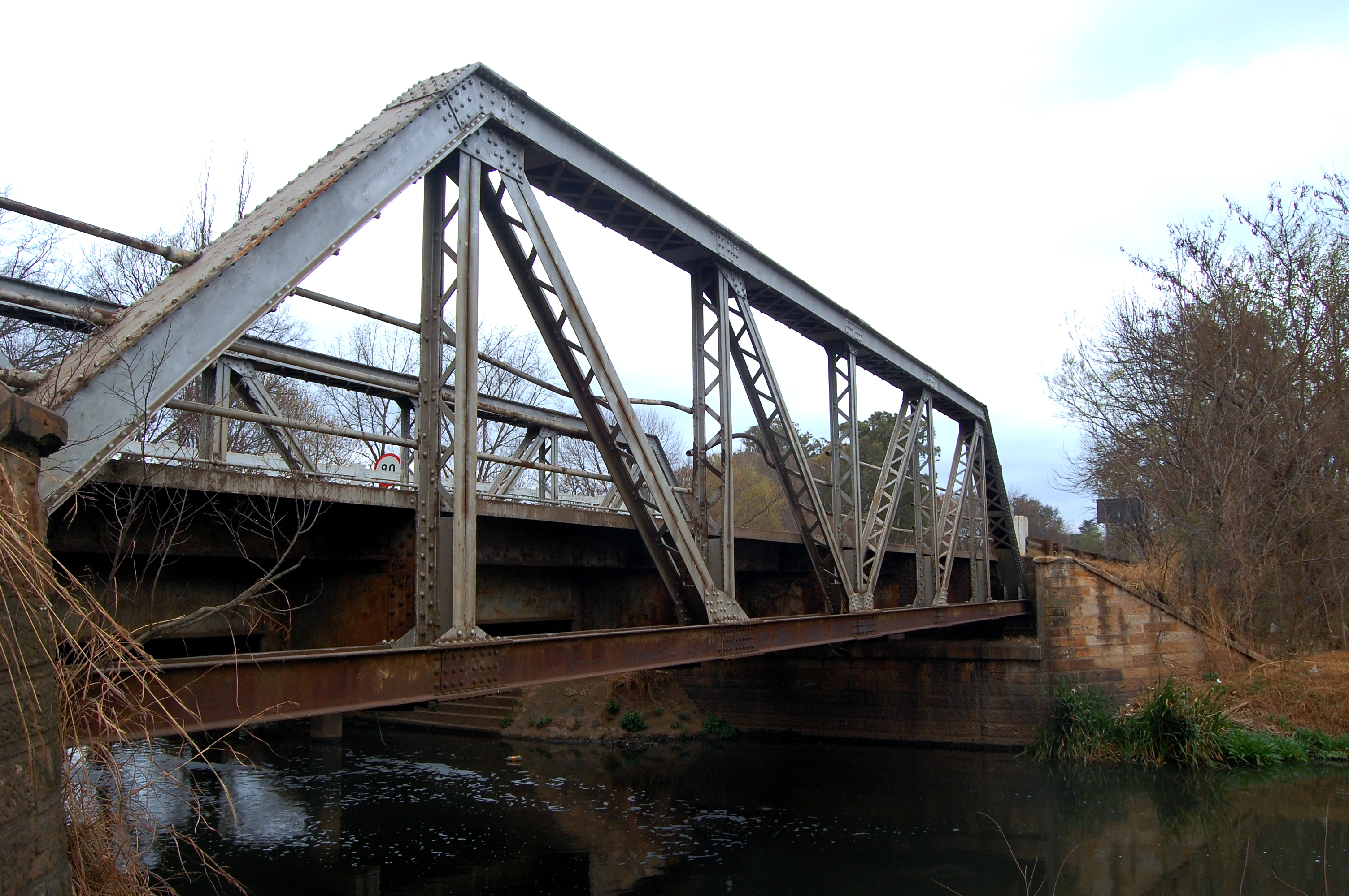 Wierda Bridge, Six Mile Spruit, Centurion, Pretoria This media shows a South African Protected Site with SAHRA file reference 9/2/258/0162.